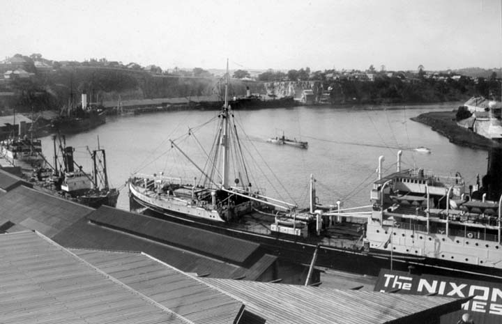 Circular Quay, Petrie Bight, Brisbane. (Brisbane River)